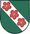 Coat of arms of Ludersdorf-Wilfersdorf, Styria